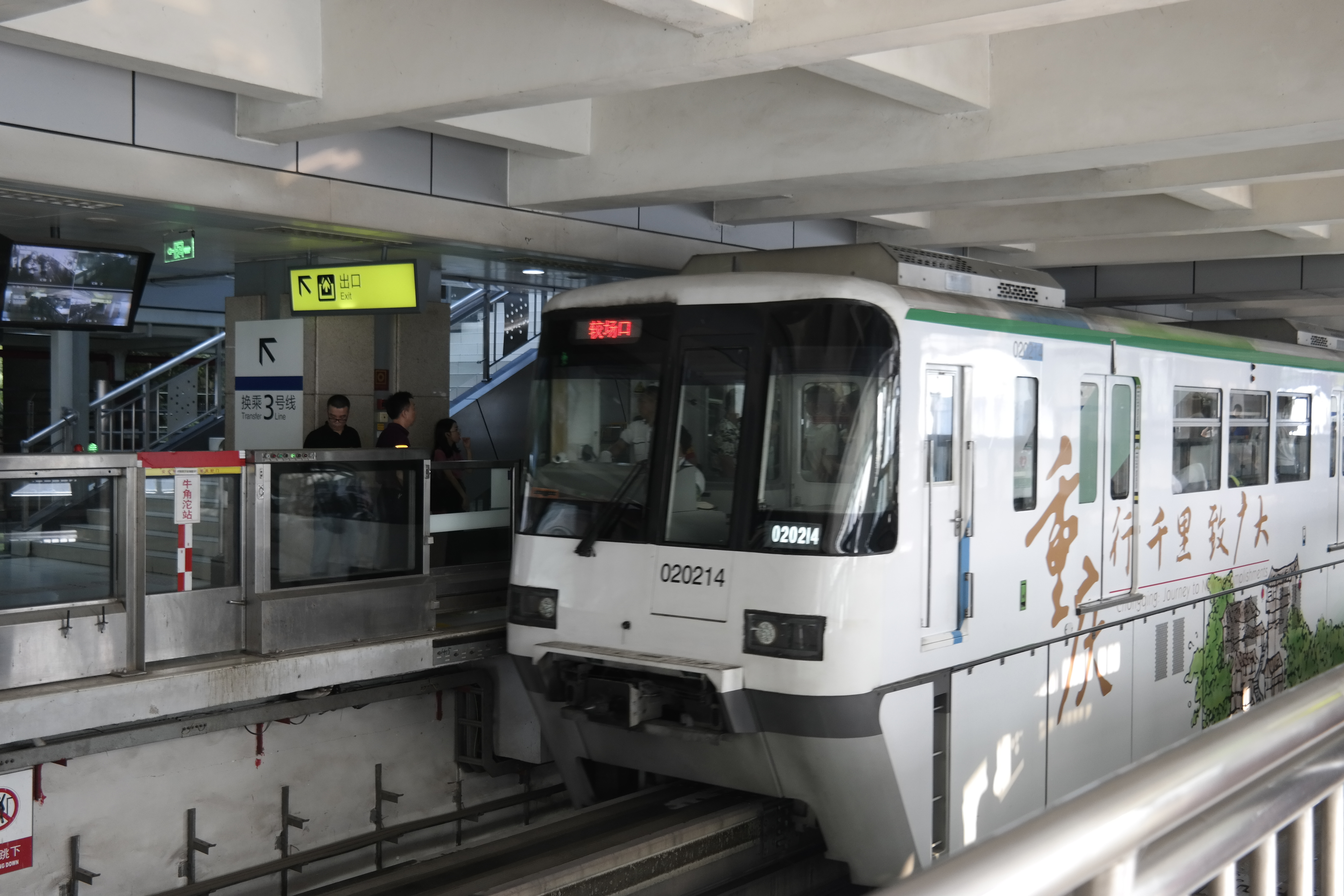 20190526 174817 A